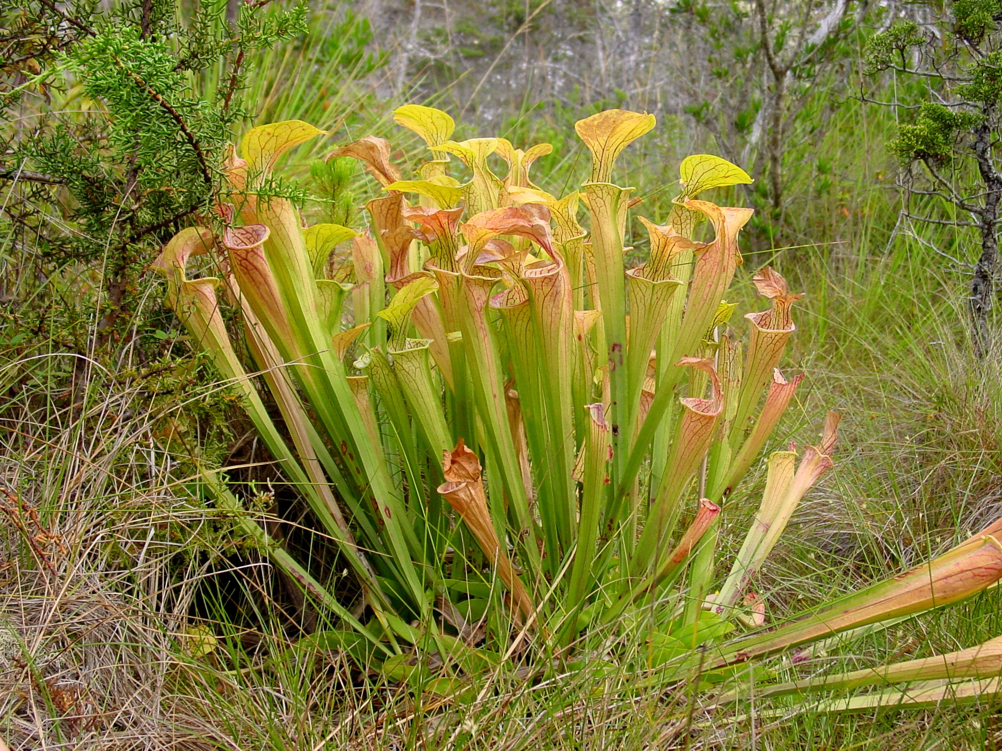 Description:Sarracenia oreophila Photo taken by: Noah Elhardt